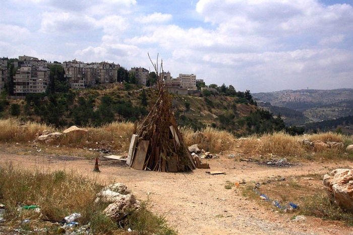 Wood pile ready for Lag Baomer bonfire, over a wadi in the back of the Sorotzkin Street in Jerusalem